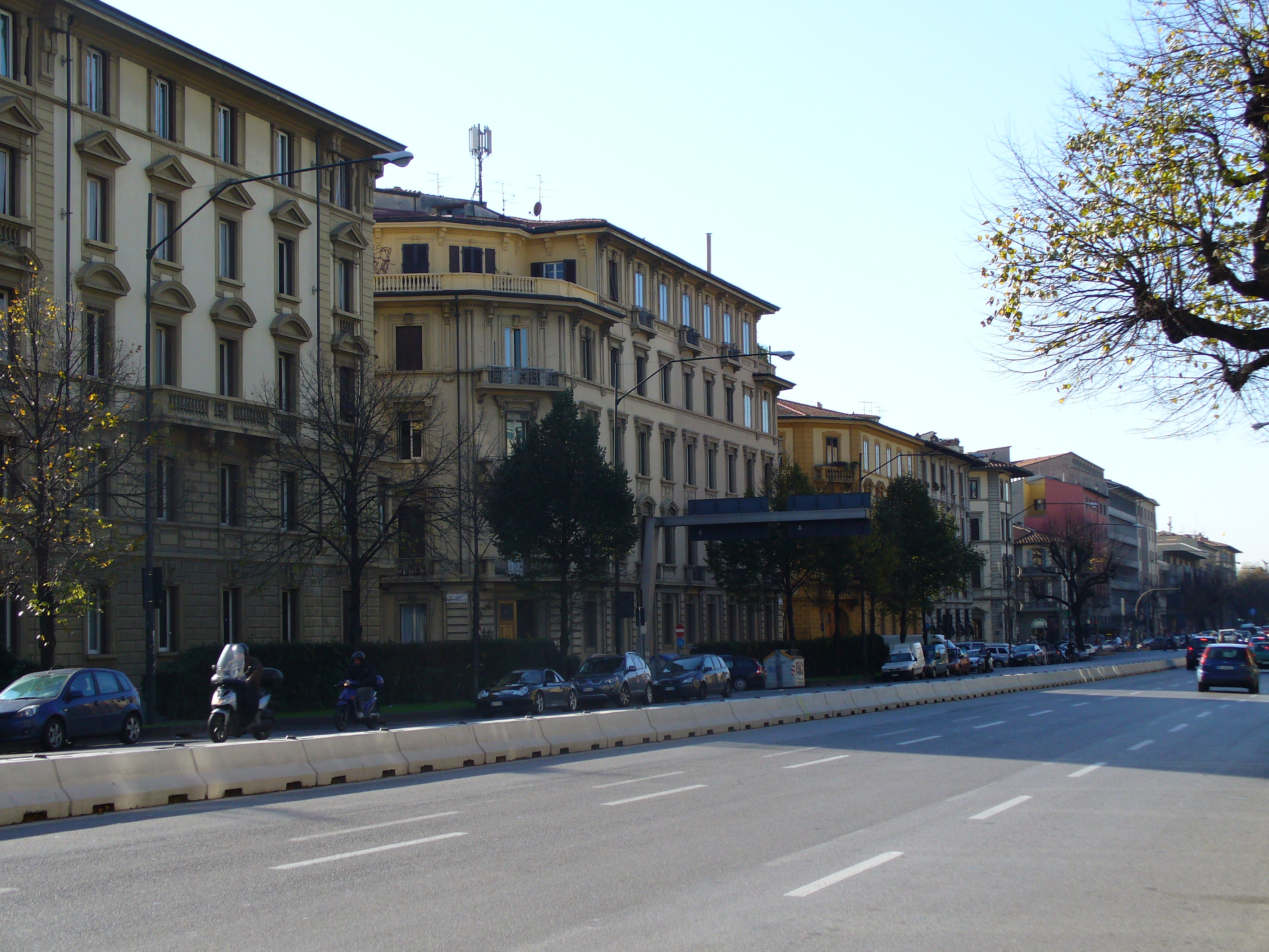 Viale Spartaco Lavagnini (Firenze)